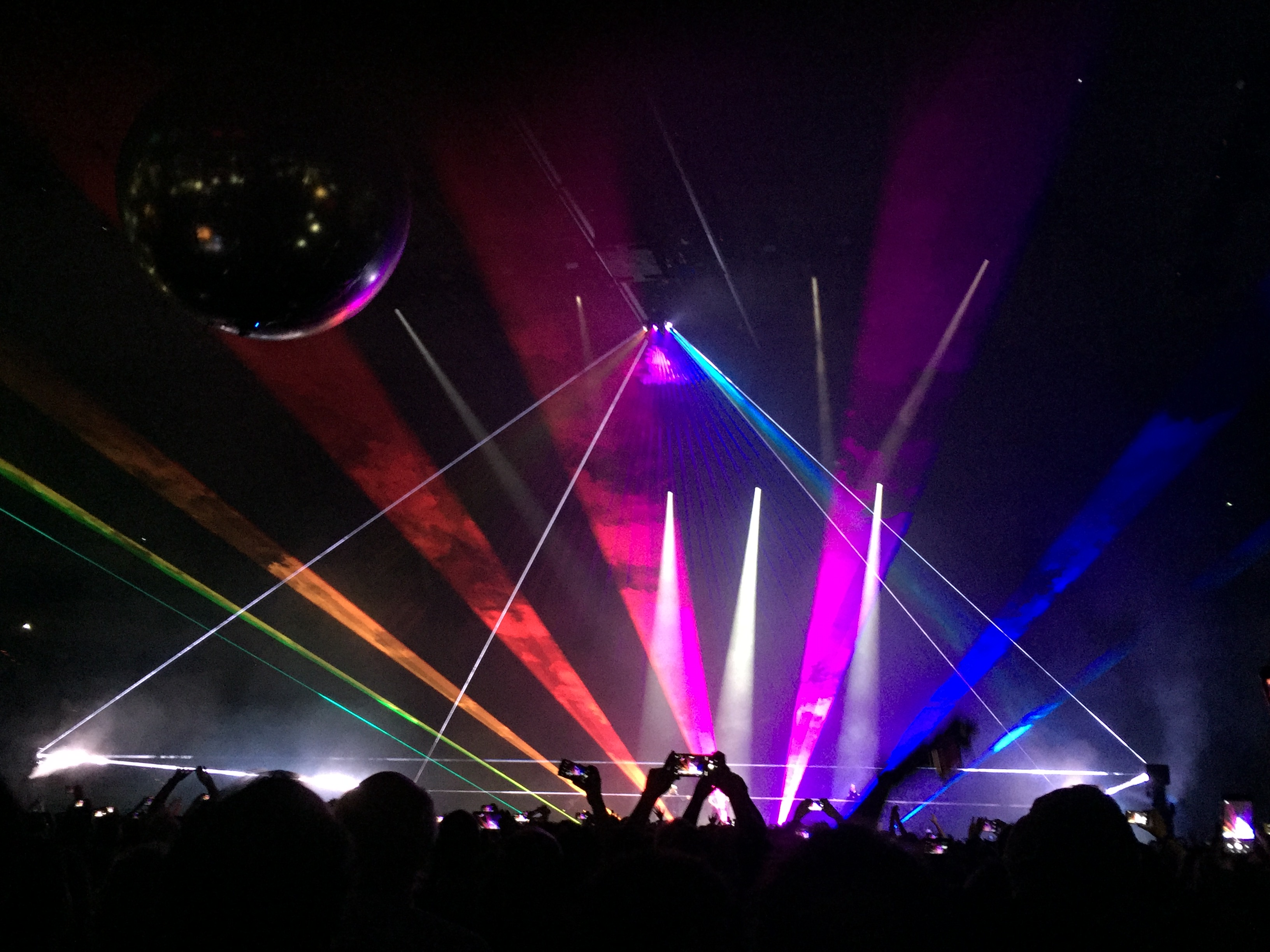 Concert of Roger Waters in Palau Sant Jordi, Barcelona; first show of the second leg in Us+Them tour. (13th of April 2018)